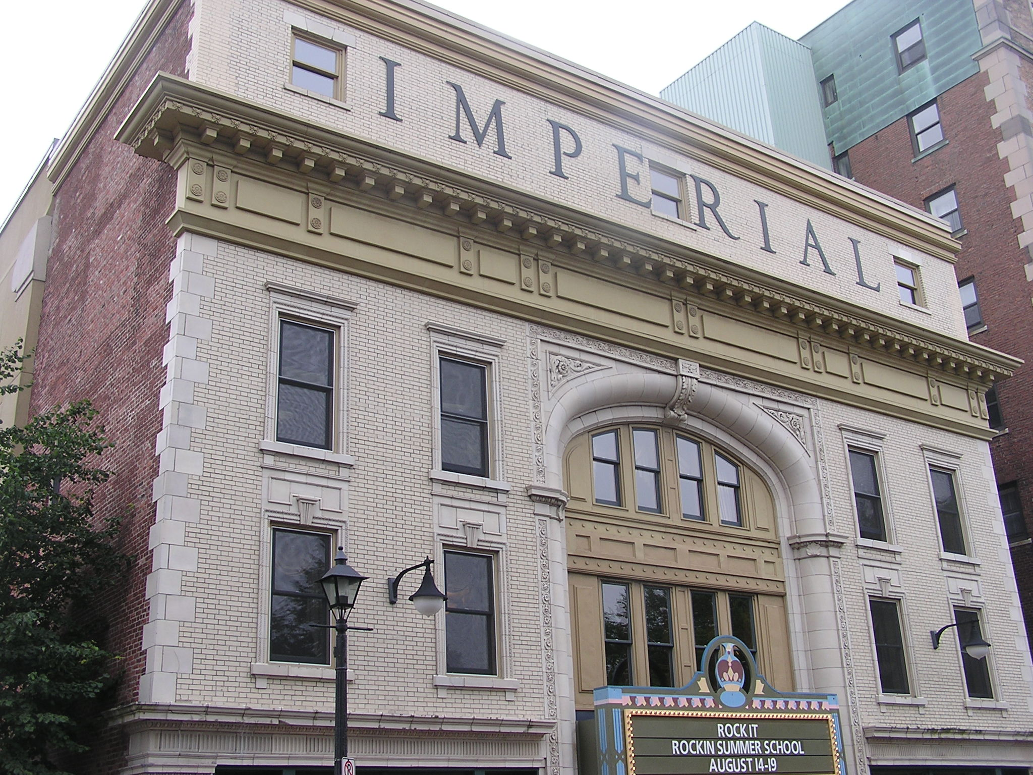 Saint John, New Brunswick Imperial Theatre